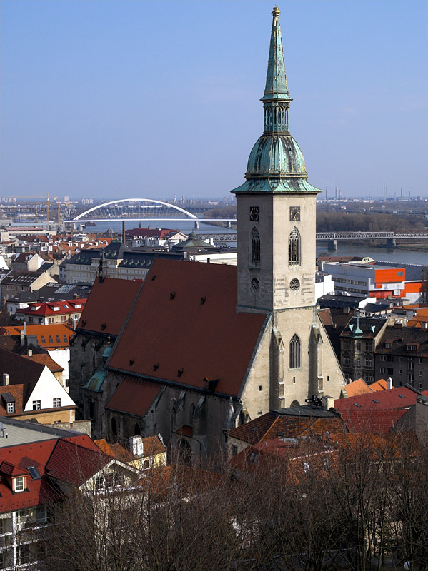 Bratislava, Donau and St. Martin's Cathedral.